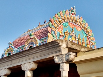 Innambar elutharinathar temple vimana இன்னம்பர் எழுத்தறிநாதர் கோயில் விமானம்